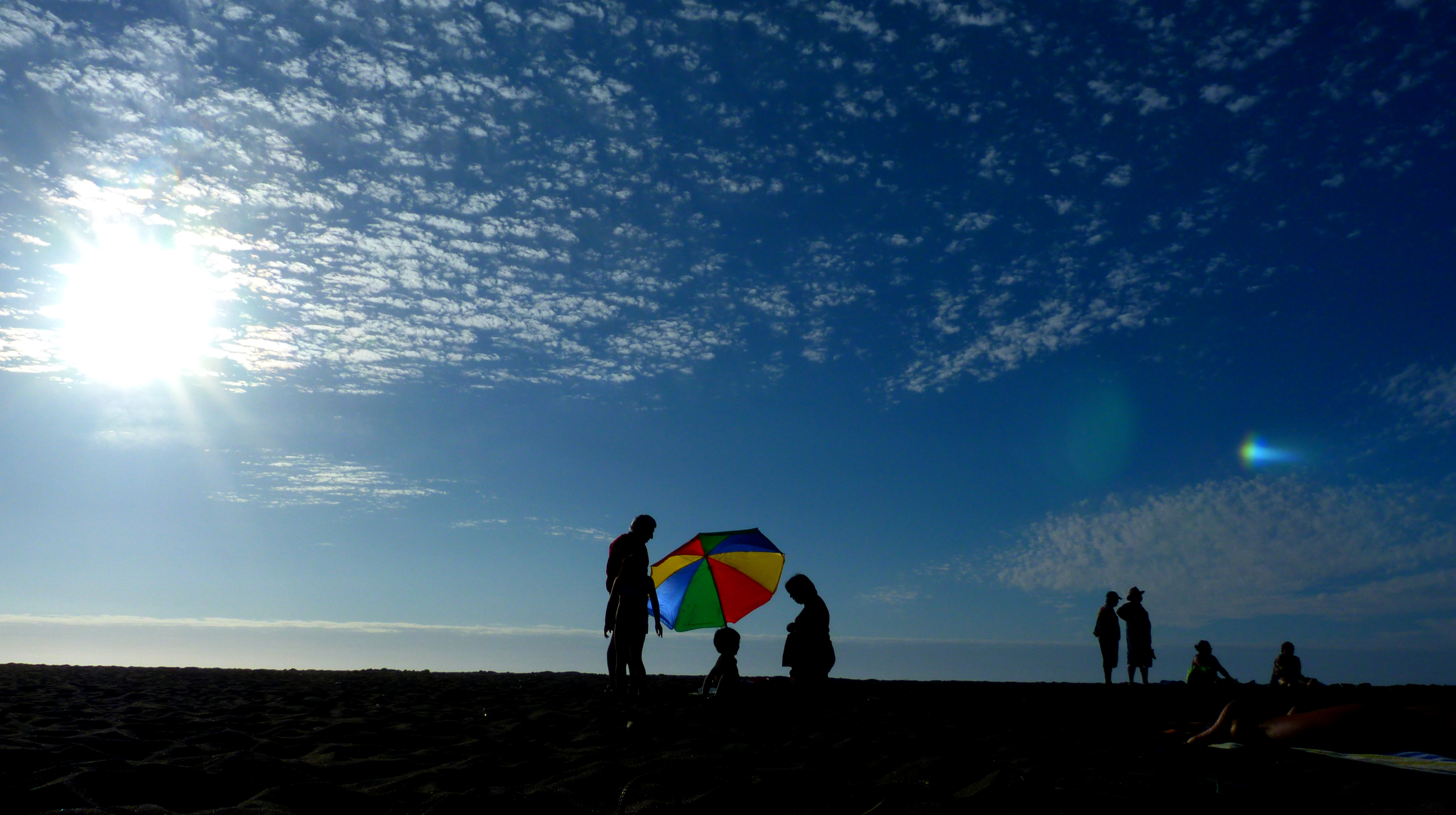 INFIERNILLO-ILOCA